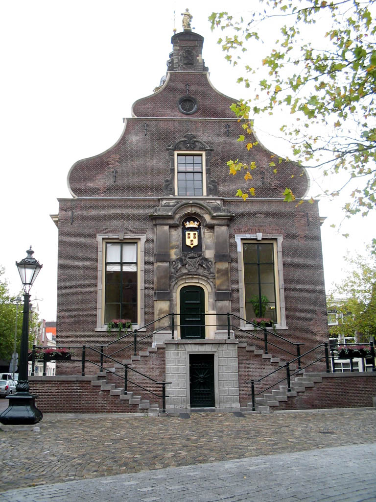 The old city hall, Schiedam, 22 oktober 2005